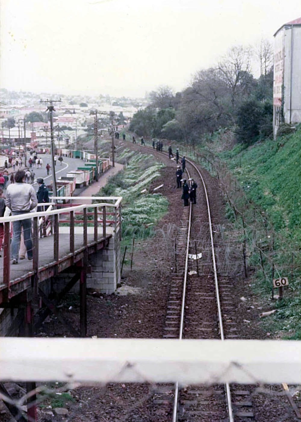 View from Kingsland Station looking west before the 1981 All Blacks vs Springboks rugby match.